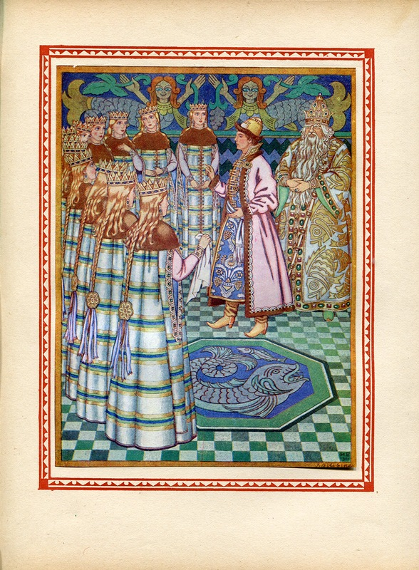 Ivan Yakovlevich Bilibin (Russian, 1876–1942) Title: Illustration from the fairytale The water king and Vasilissa the wise , 1931 Medium: watercolor w/ gouache over pencil on paper Size: 27 x 22.25 cm. (10.6 x 8.8 in.)